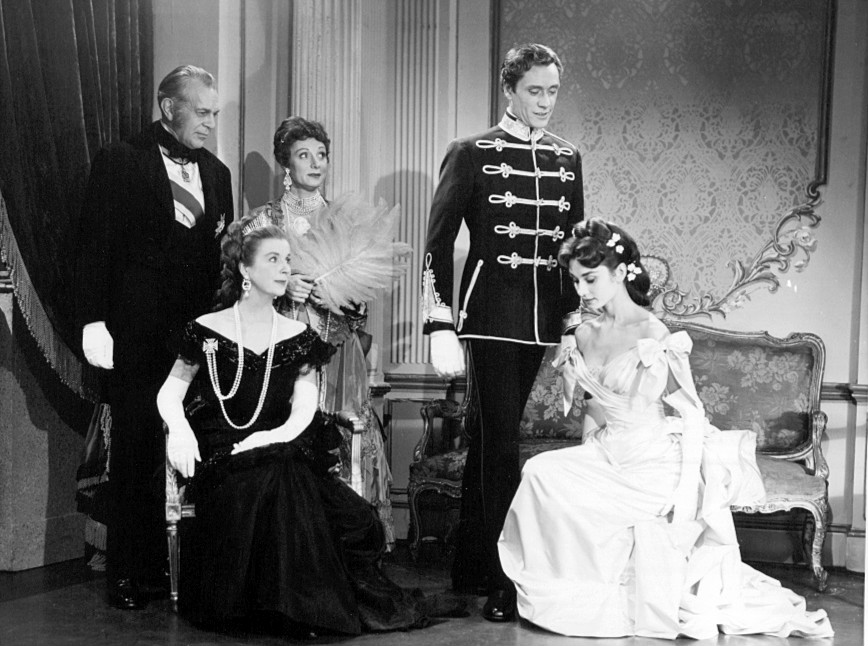 Photo from the 1957 Producers' Showcase television presentation of Mayerling. Standing, L-R: Raymond Massey, Judith Evelyn, Mel Ferrer. Seated: Diana Wynyard. Kneeling: Audrey Hepburn.